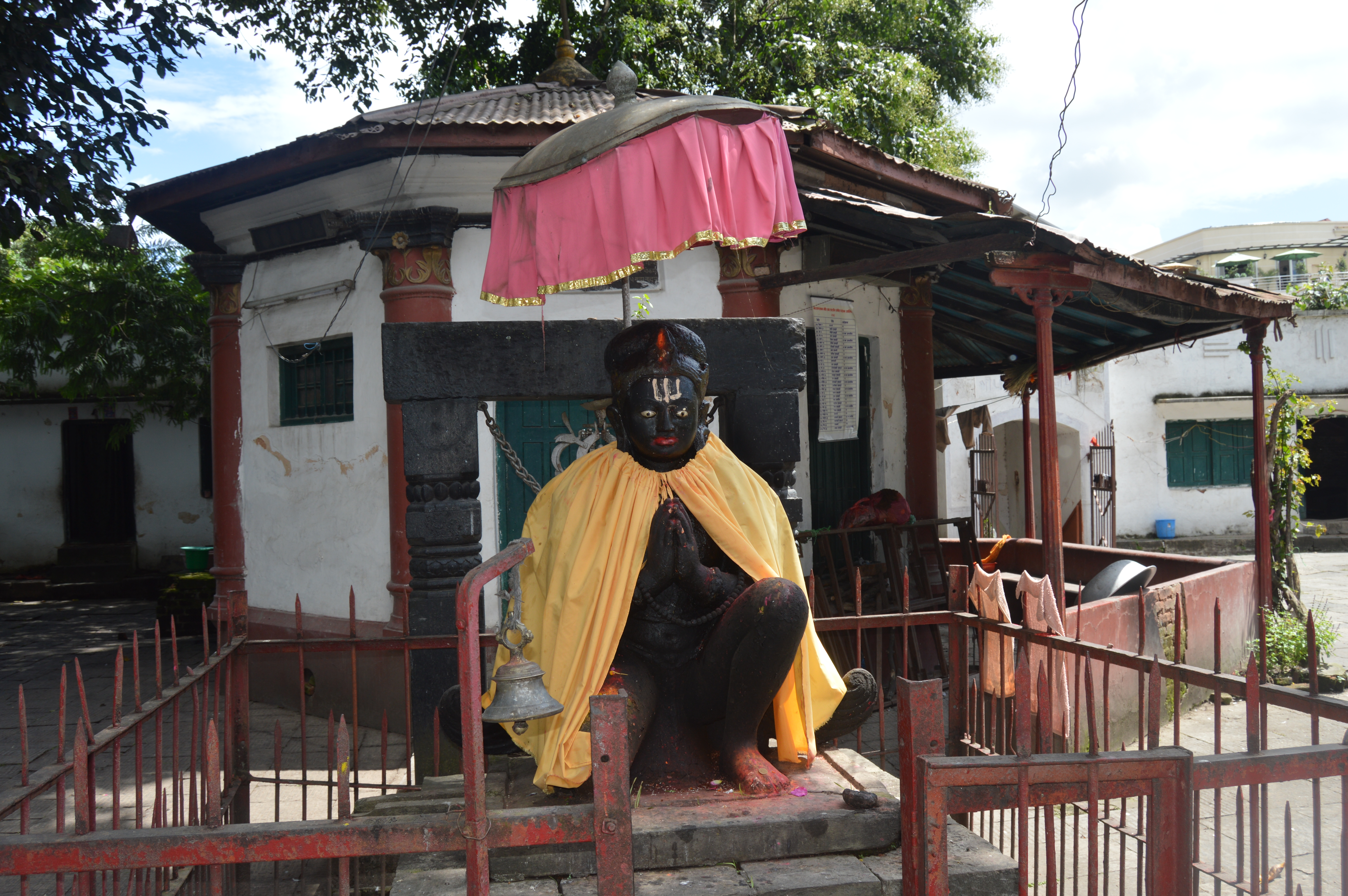 The Garuda is a large mythical bird, bird-like creature, or humanoid bird that appears in both Hindu and Buddhist mythology. Garuda is the mount (vahana) of the Lord Vishnu. Narayana is the Hindu god Vishnu, whose temple is located opposite to the Narayanhiti palace, Kathmandu.The name, Narayanhiti is made up of two words ‘Narayana’ and ‘Hiti’.